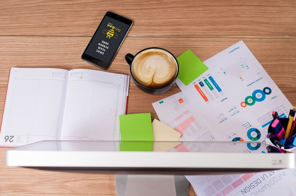 Interrelación de las TIC y los métodos de enseñanza